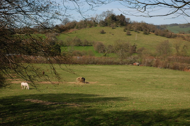 Snodhill Castle Little remains now other than motte and earthworks with some stonework dating from the 13th and 14th centuries. An earlier castle was built in the early 12th century but was rebuilt in stone at the end of the same Century. The castle was badly damaged during the English Civil War, probably by cannon and was made undefendable. Much of the remaining stone was removed towards the end of the 17th Century to build a nearby manor house.